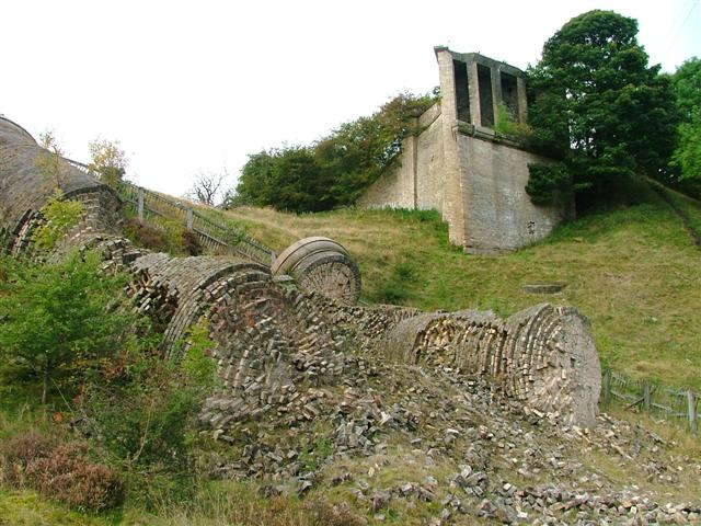 South Abutment of Ruined Viaduct. This viaduct spanned the River Gaunless and was built in 1862. It carried the South Durham and Lancashire Railway from Bishop Auckland to Barnard Castle. It was designed by Thomas Bouch who is best remembered for the Tay Bridge disaster. This bridge however successfully served its purpose and was demolished when the railway was abandoned. See 61927 for accompanying picture.